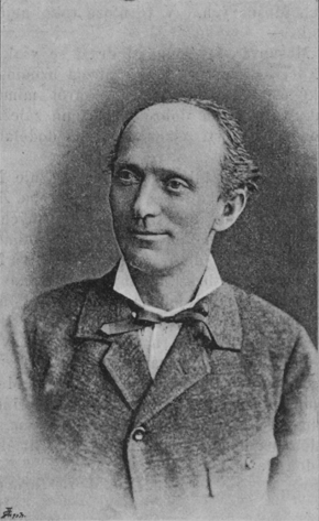 Photograph of Jindřich Mošna, Czech actor.